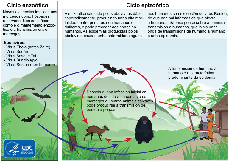 ebola's cycle of infection